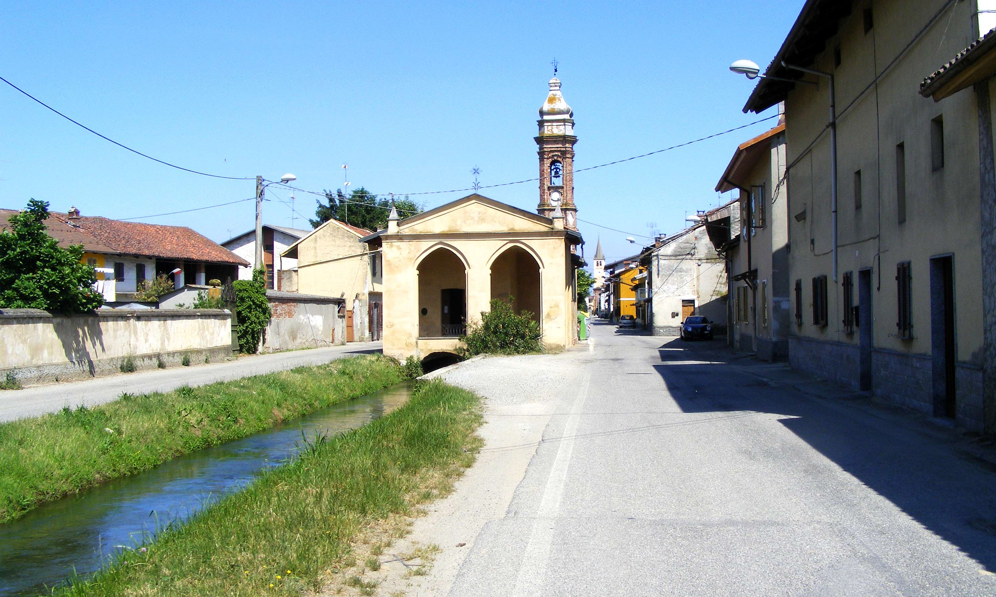 Lamporo (VC, Italy): panorama